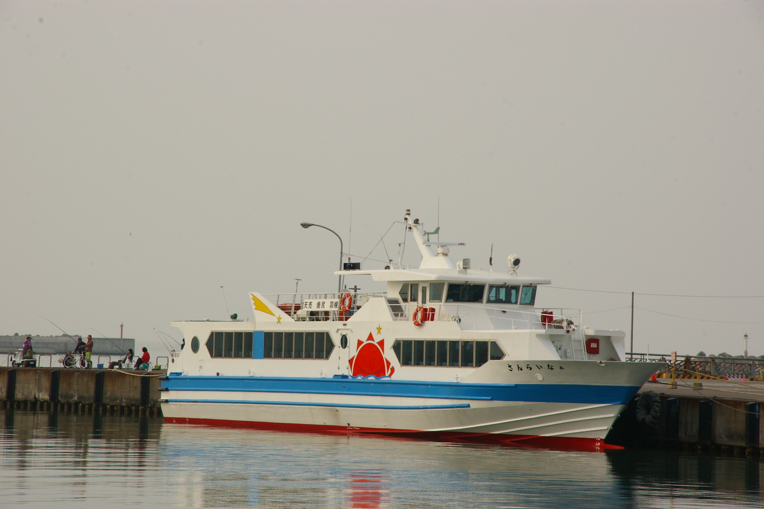 Haboro coast ferry, "Sun Reiner"